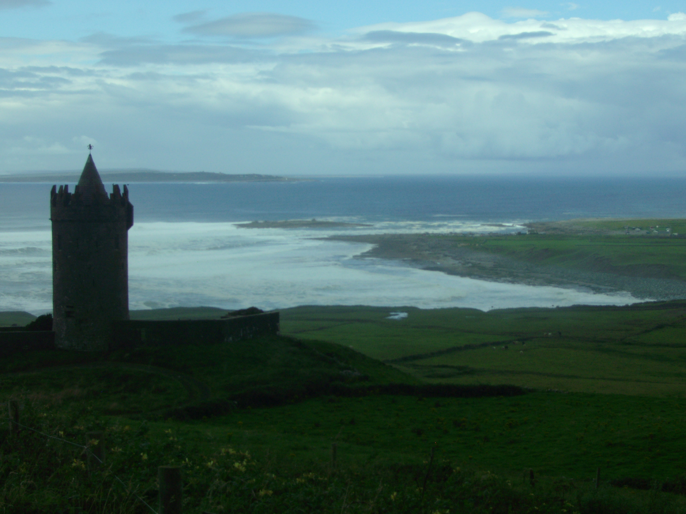 Doonagore Castle from south-east, background with Inisheer island. Near Doolin, County Clare, Republic of Ireland.